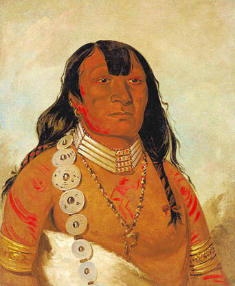 Portrait of Dohason (Little Bluff/Little Mountain) an important warrior, war chief, and elected principal chief of the entire Kiowa nation of Indians. Painted by George Catlin in 1834 while traveling with a expedition of American dragoons to meet with the Indians of the southern great plains. “ a very gentlemanly and high minded man, who treated the dragoons and officers with great kindness while in his country. His long hair, which was put up in several large clubs, and ornamented with a great many silver broaches, extended quite down to his knees.” - George Catlin